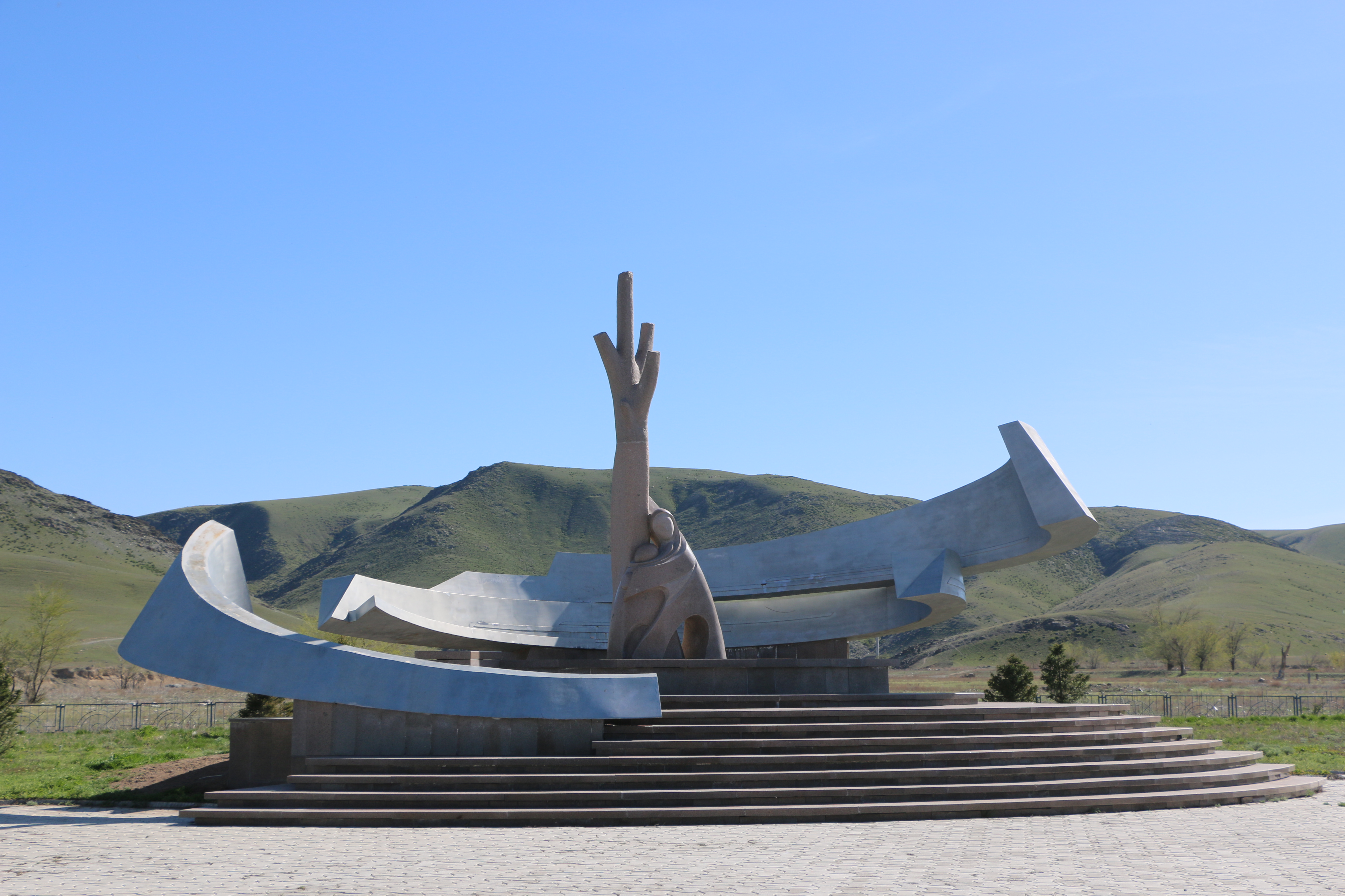 Kyzylagash Monument